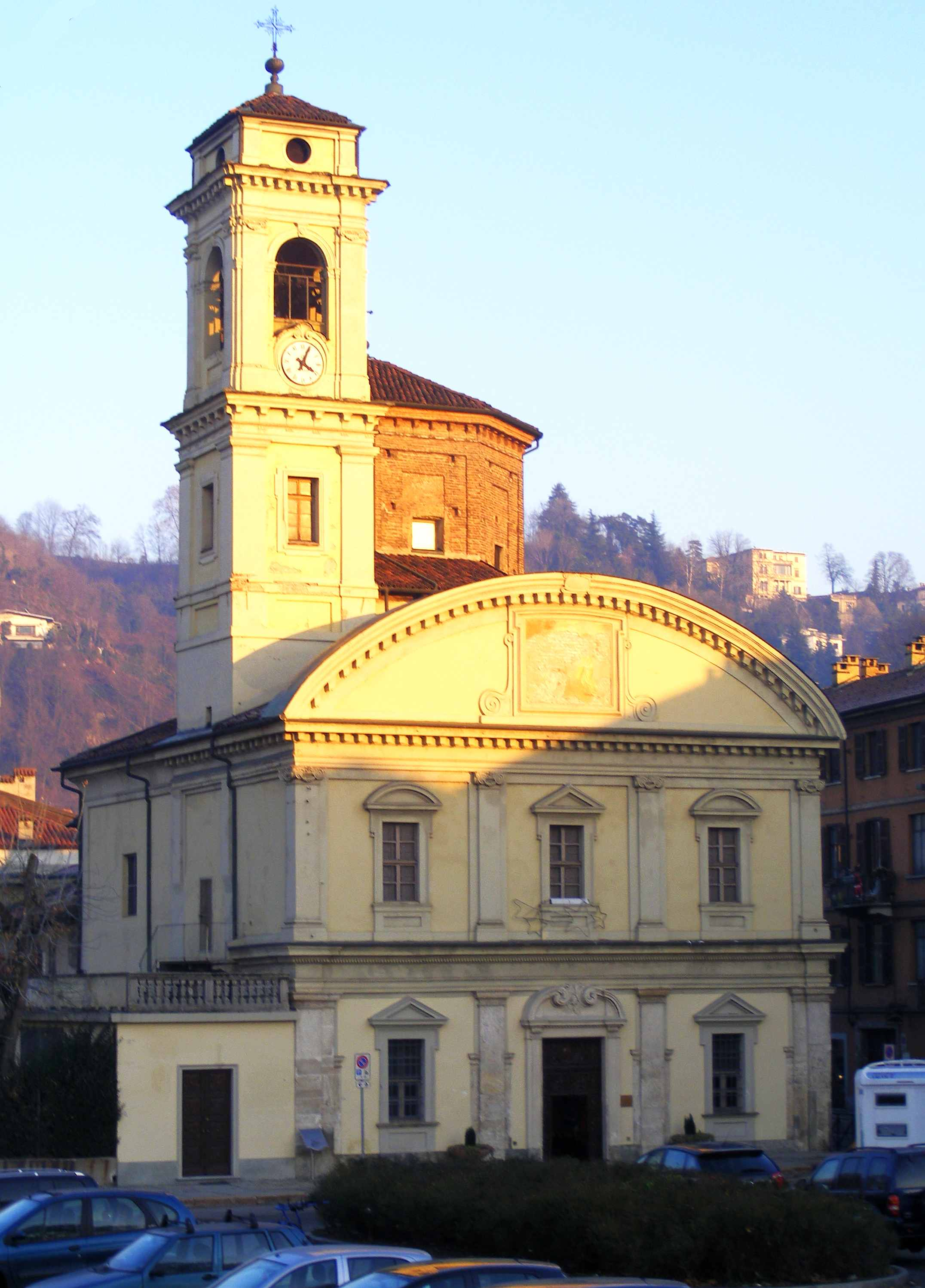 Tutin (Italy): Madonna del Pilone church